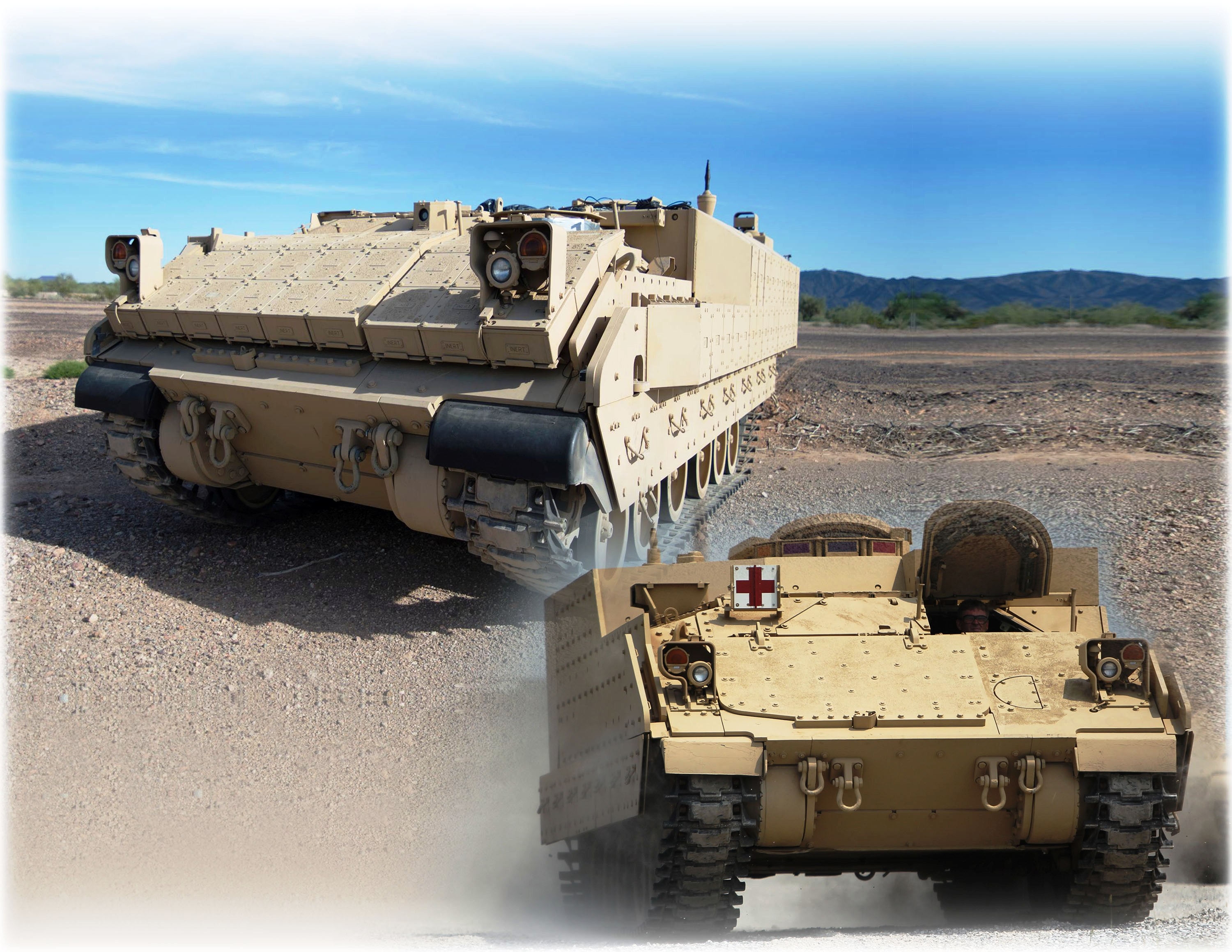 U.S. Army's Armored Multi-Purpose Vehicle (AMPV)